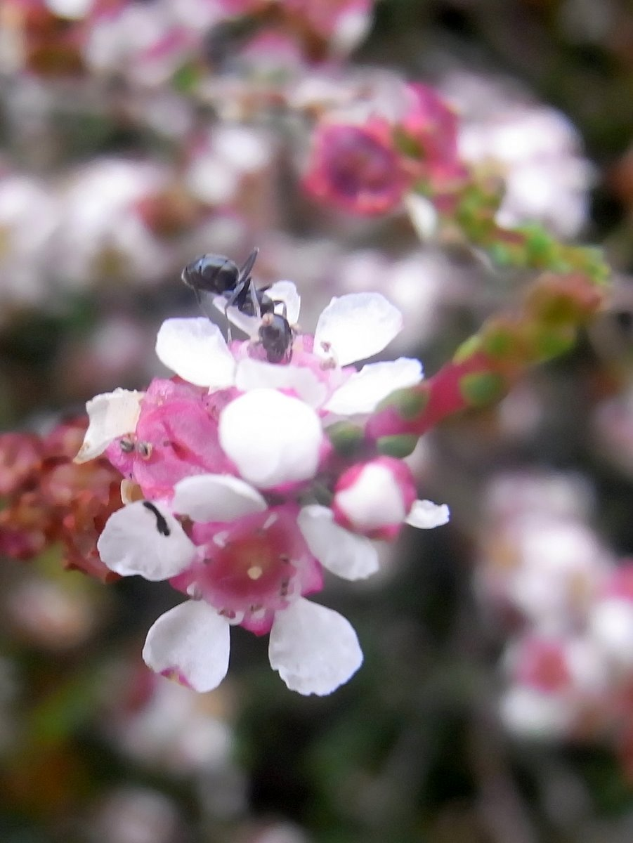 Baeckea brevifolia, labeled at Batemans Bay Botanic Gardens, Australia